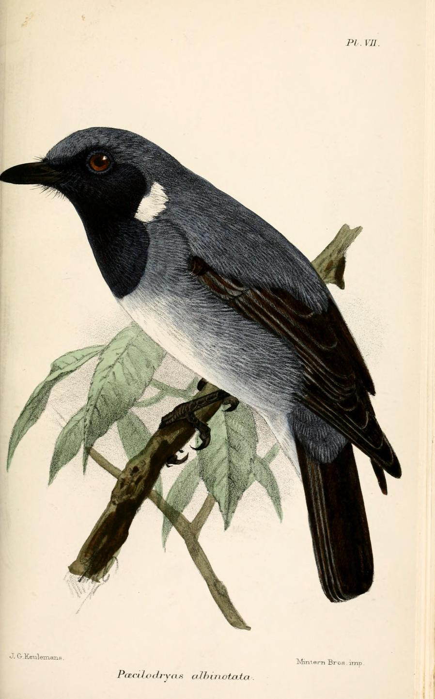 Pacilodryas albinotata = Plesiodryas albonotata, Black-throated Robin